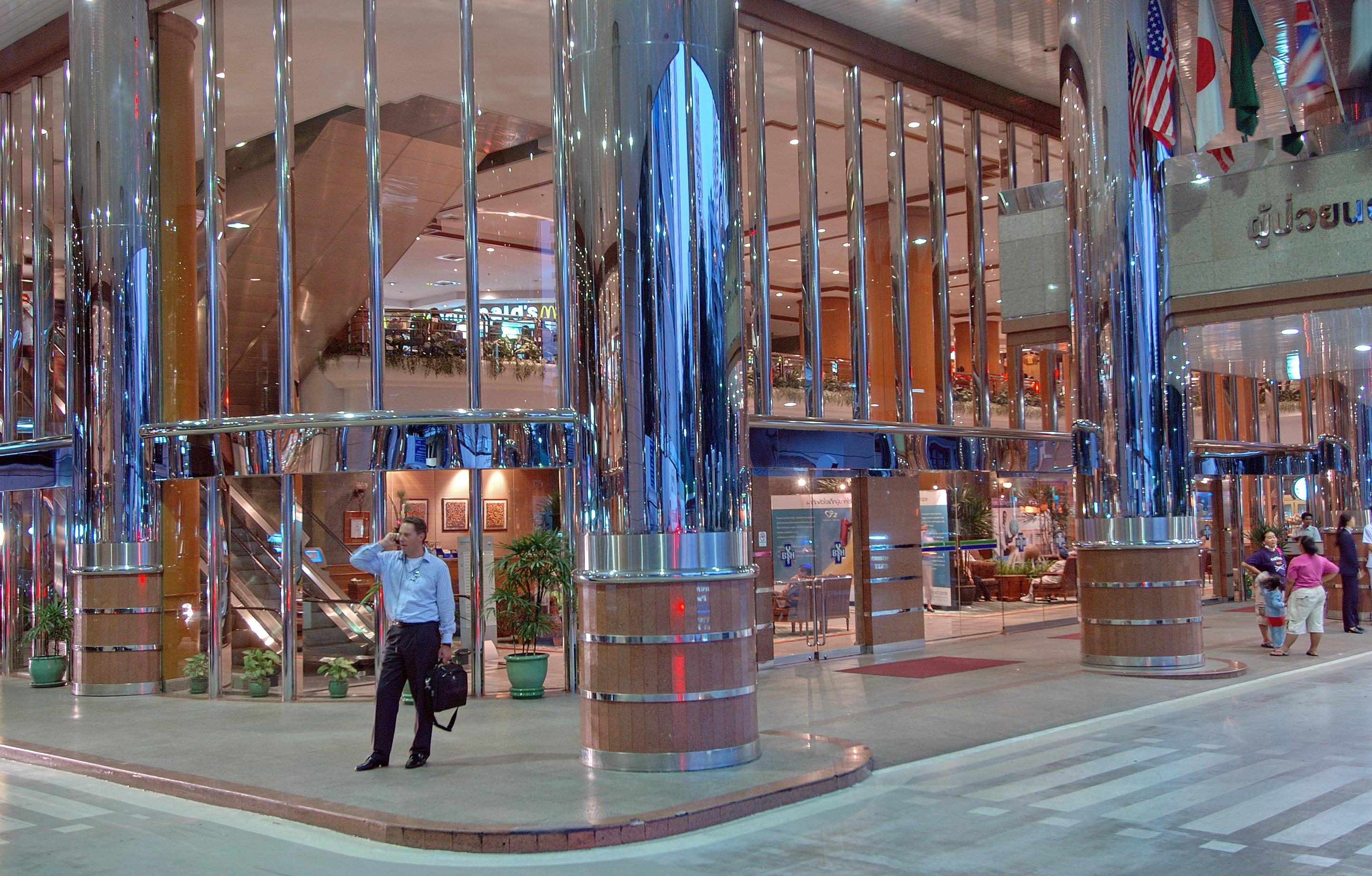 The entrance area of the hospital building